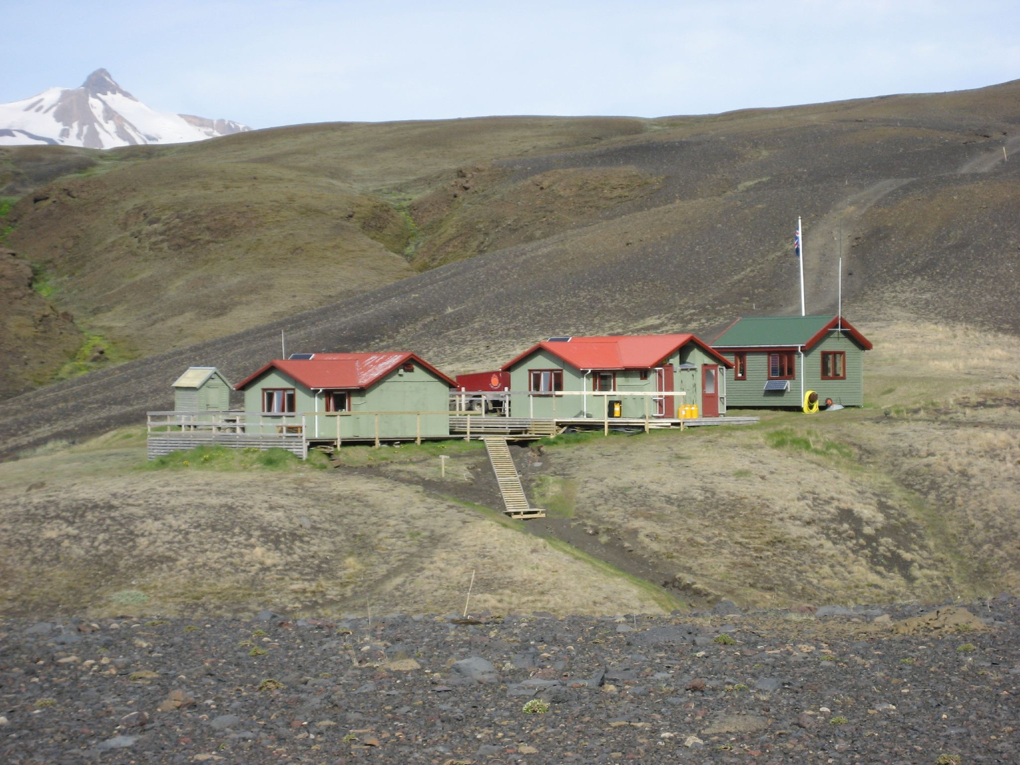 The hut of Emstrur